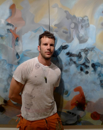 Picture of Antonio Muniz, an abstract surrealist artist from Los Angeles